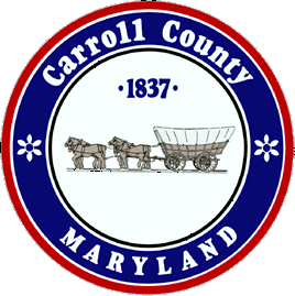 The official seal of Carroll County, Maryland, adopted on July 1, 1977, and specified in 23 (3A-1.) 3-103 of the Carroll County code.